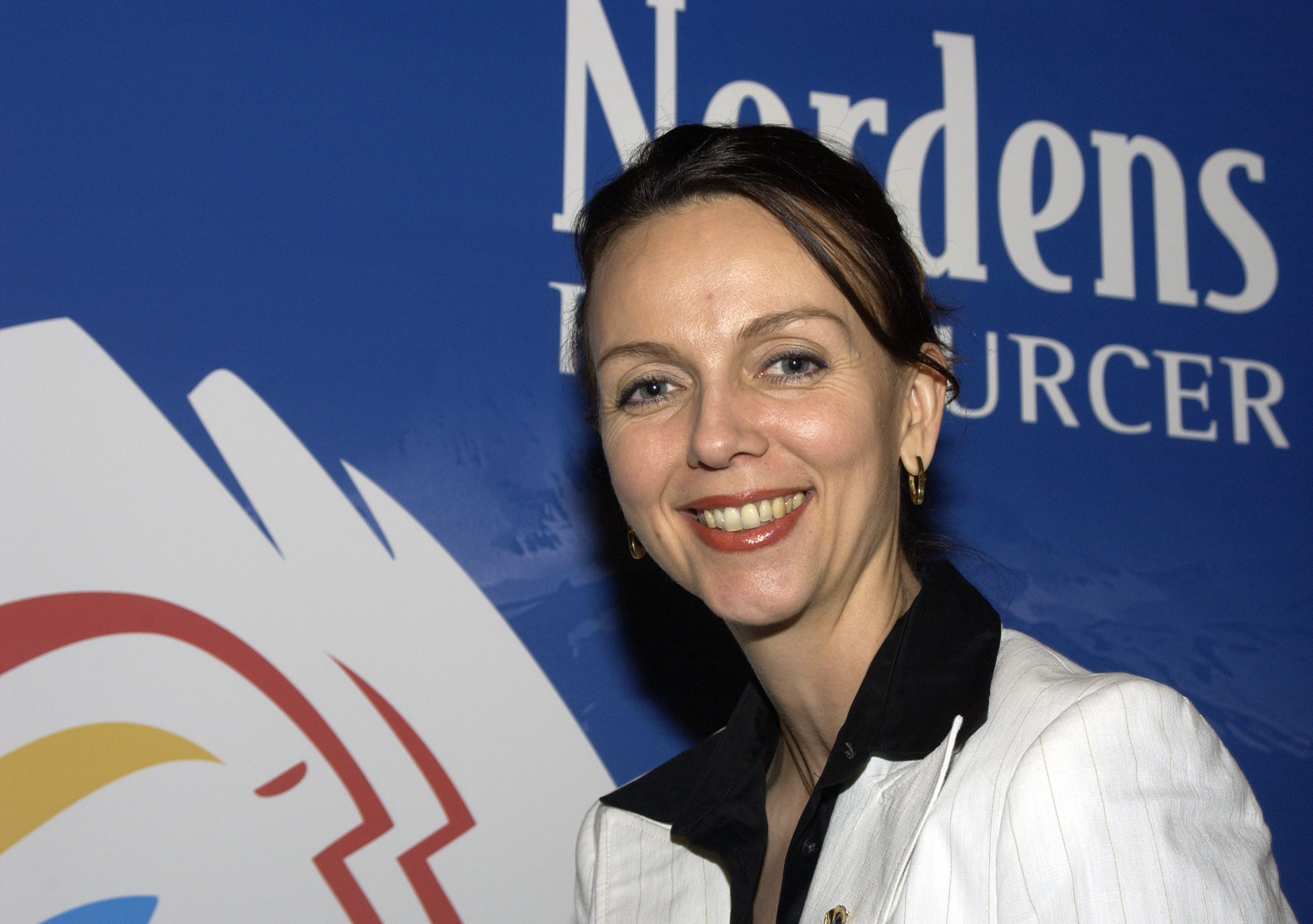 Siv Friðleifsdóttir, Islands Miljø- og nordisk samarbejdsminister presenterar Islands ordförandeprogram (Bilden är tagen vid Nordiska rådets session i Oslo, 2003)